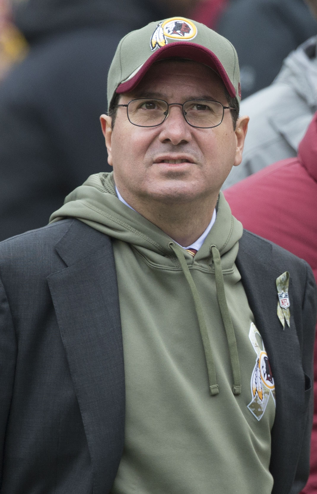 Buccaneers at Redskins 11/16/14